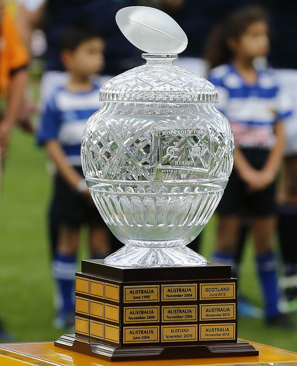 2017.06.17.15.05.47-Hopetoun Cup-0002 The 2017 mid-year rugby union international, 17 June 2017, Australia vs Scotland at Allianz Stadium, Sydney